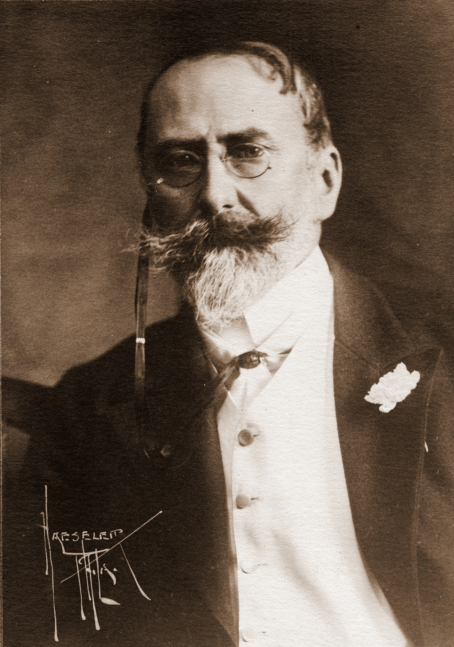 William Merritt Chase (1849-1916), American impressionist painter